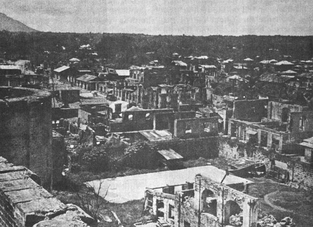 This image depicts the destruction of Lipa City after it was liberated from the hands of the Japanese Force on March 29 1945 by the XIV Corps, 1st Cavalry Division and Filipino Guerillas. Tagalog: Ipinapakita ng larawang ito ang pagkawasak ng Lungsod ng Lipa matapos itong mapalaya sa kamay ng Puwersang Hapon noong Marso 29 ng XIV Corps, 1st Cavalry Division at mga Gerilyong Pilipino.